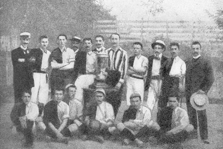 First Vienna FC 1894 with Challenge Cup